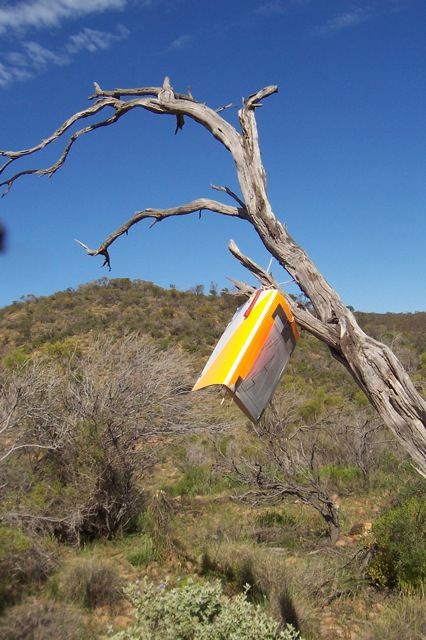 Rogaine Control (at Rogaine South Australia's Spring 12 Hour event - 2009)